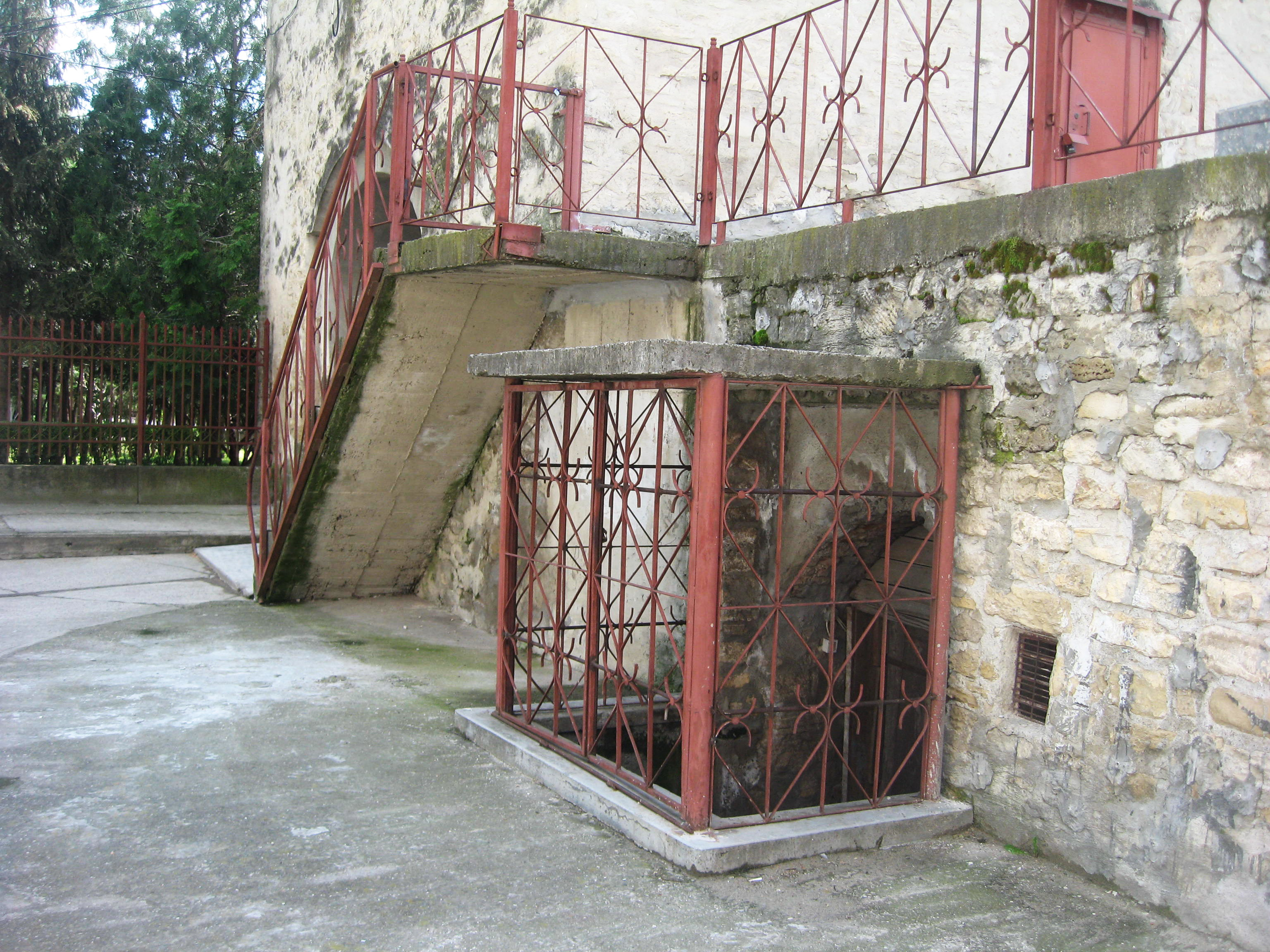 Barnovschi Church, Iași